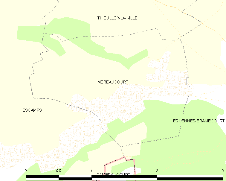 Map of French municipality Méréaucourt